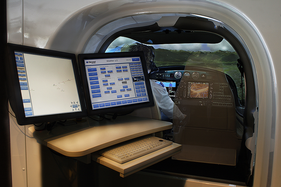 This Picture allows a view into a DA42 Simulator Cockpit from sight of the flight instructor.